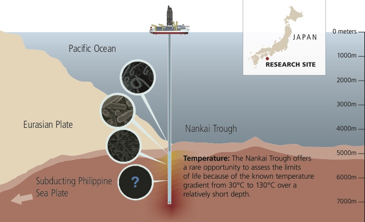 Circles show some organisms that were found at various depths.